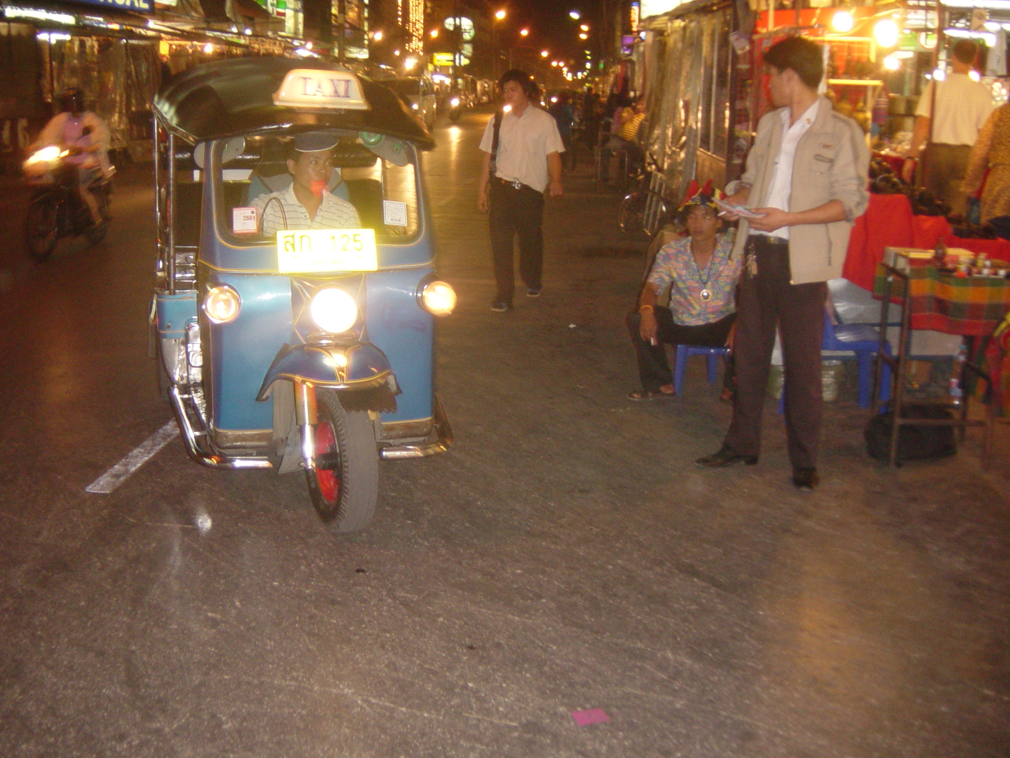 Took-took (tuk-tuk) at the Chiang Mai night bazaar